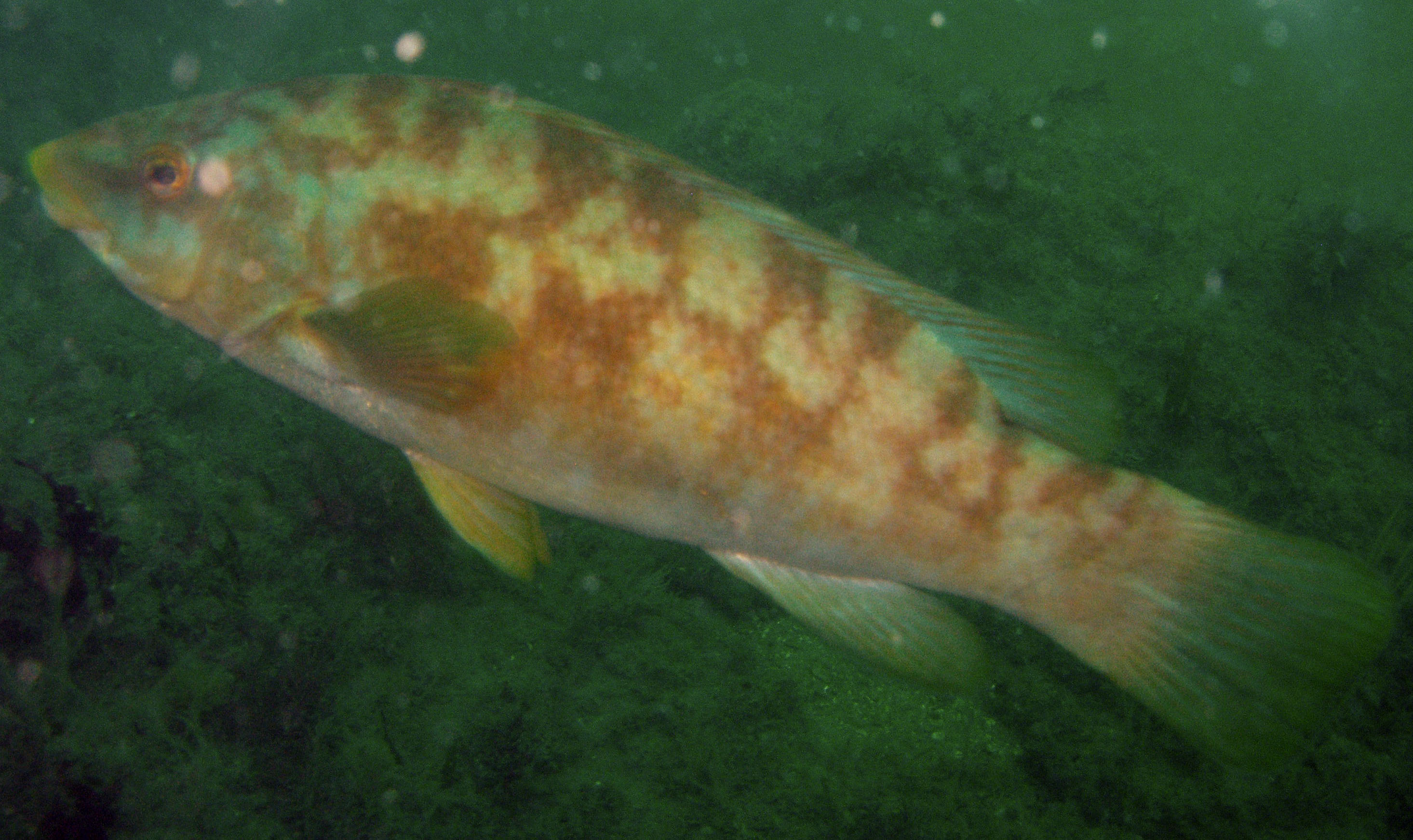 Ballan wrasse. West Wales, SKOMER MARINE NATURE RESERVE